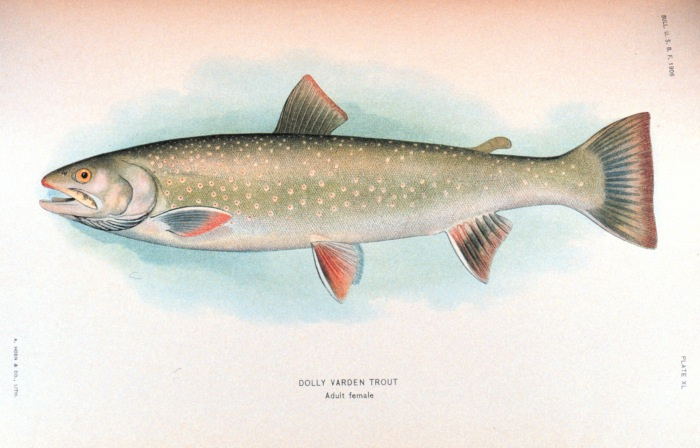 Dolly Varden trout, Salvelinus malma malma, adult female. From : In: "The Fishes of Alaska." Bulletin of the Bureau of Fisheries, Vol. XXVI, 1906. P. 360, Plate XL.